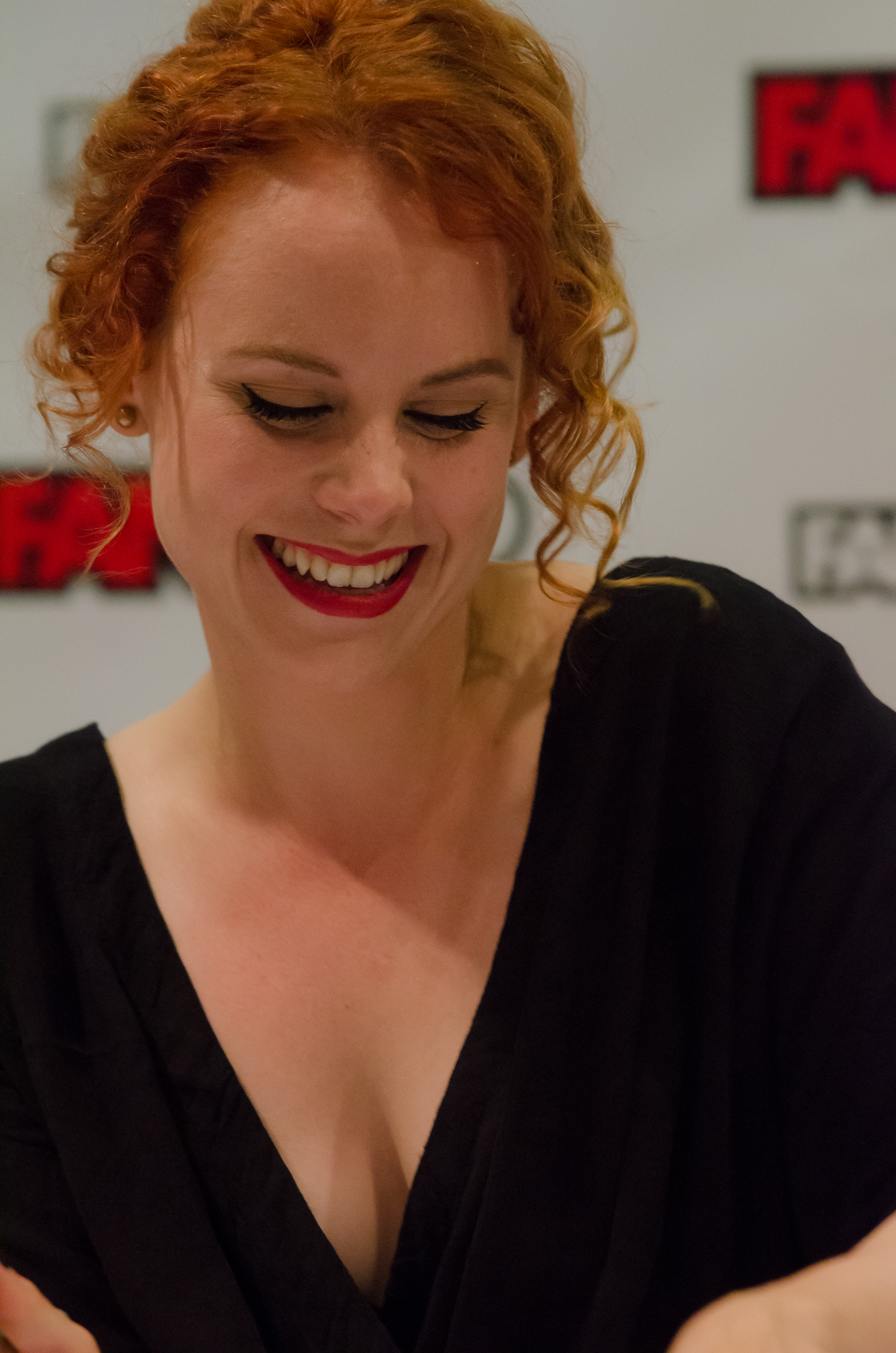 Panel for the webseries Carmilla at Fan Expo Canada in Toronto in 2015